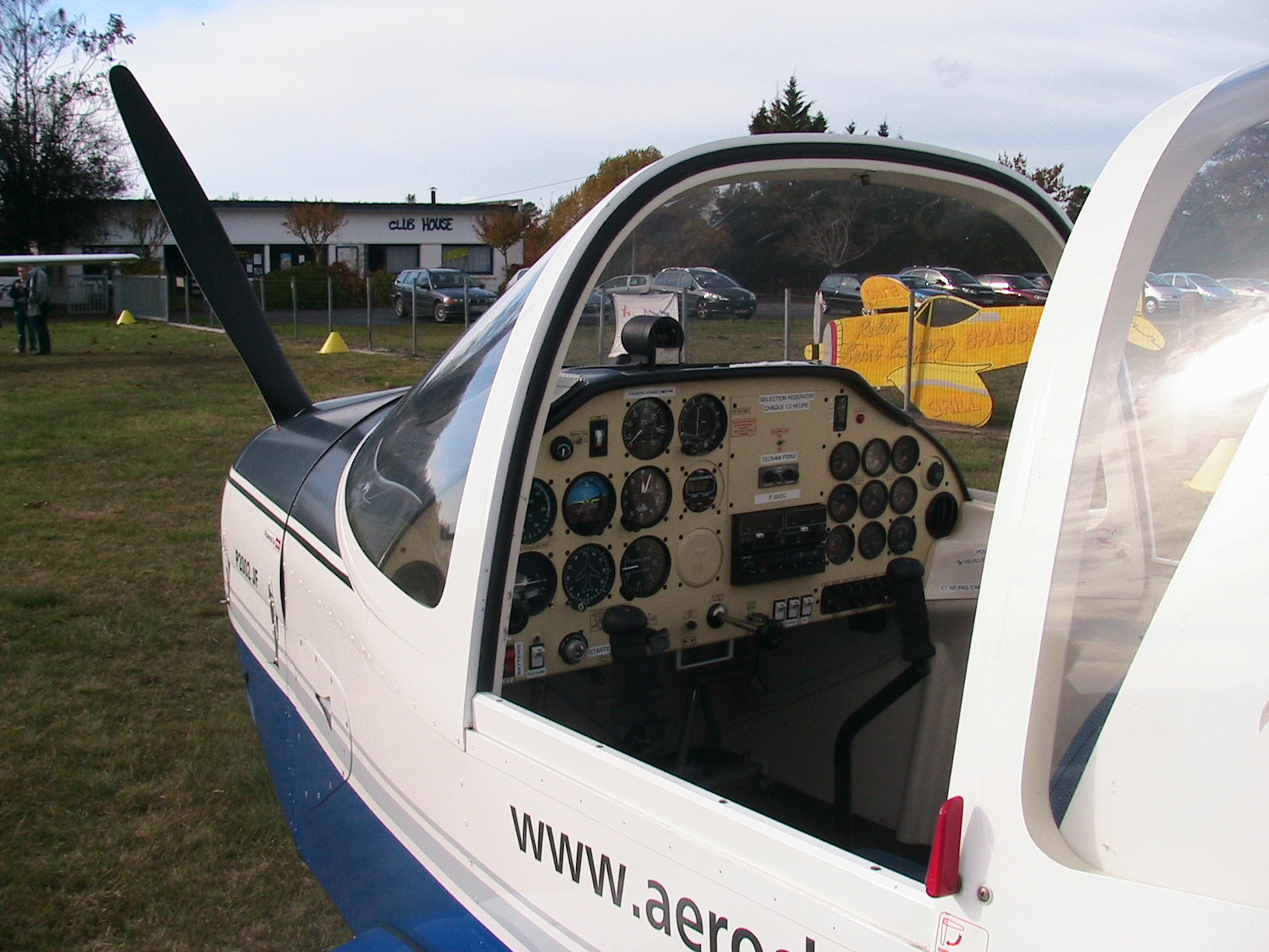 Tecnam P2002JF two seater single engine aircarft.